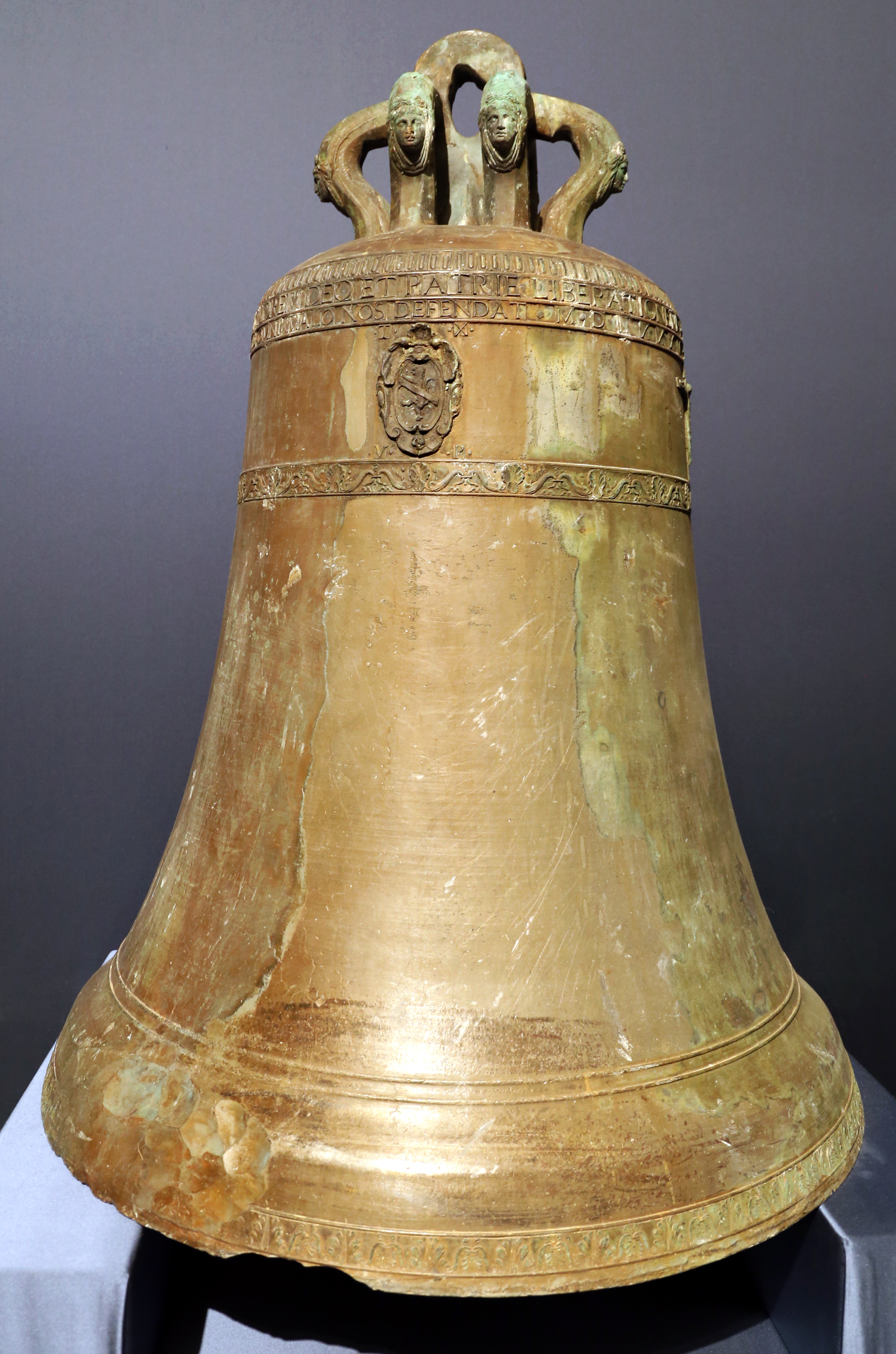 Facciamo presto! (2016-2017 exhibition)